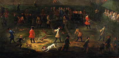 Extract from an 18th century work of the German School depicting a fox-tossing match with elegant company spectating.